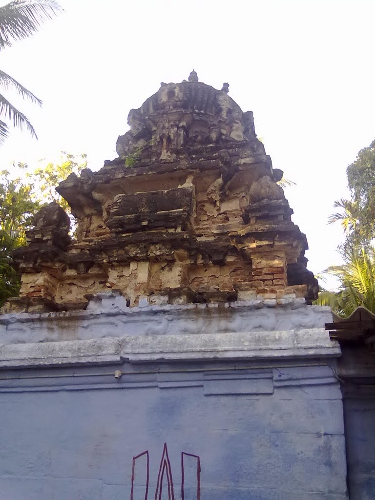 Vellalore Karivaratharaja Perumal Temple Tower. This temple is of historic importance and centuries old. It is in banks of river Noyyal, Vellalur , Coimbatore , India